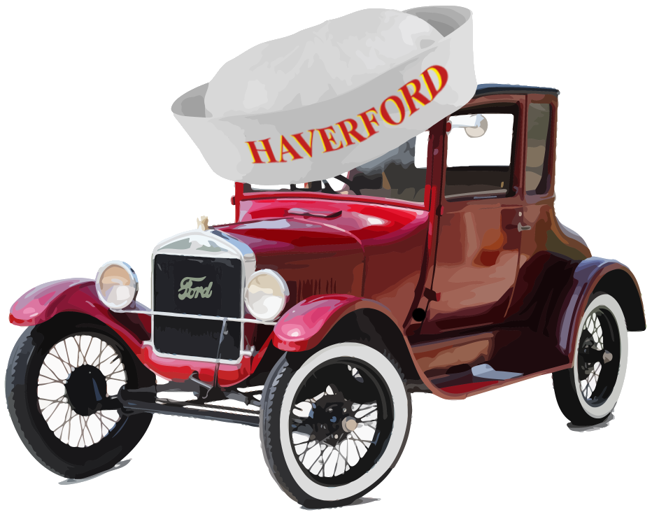 Haverford High School Ford Mascot